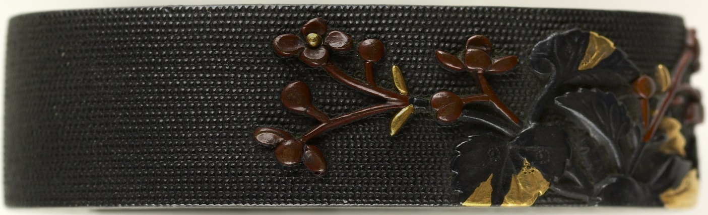 Hollyhock blossoms and leaves are depicted on a background of fish egg pattern ("nanako-ji"). This is part of a mounted set.